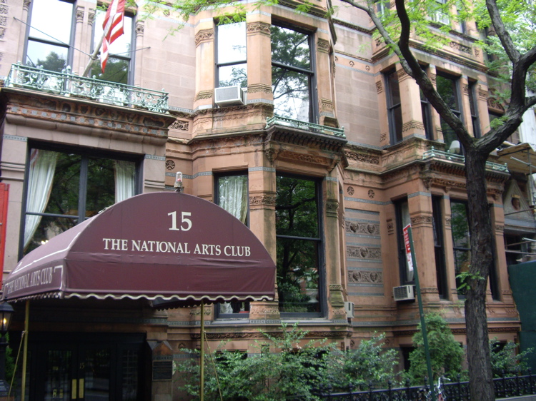 National Arts Club, at 15 Gramercy Park (South), Manhattan, New York, formerly the home of Samuel J. Tilden, Governor of New York and Presidential candididate in 1876. Calvert Vaux, one of the creators of Central Park, designed the house in 1874 from two houses built in 1845. The Club took over the building in 1906. It was named an U.S. National Historic Landmark in 1976.